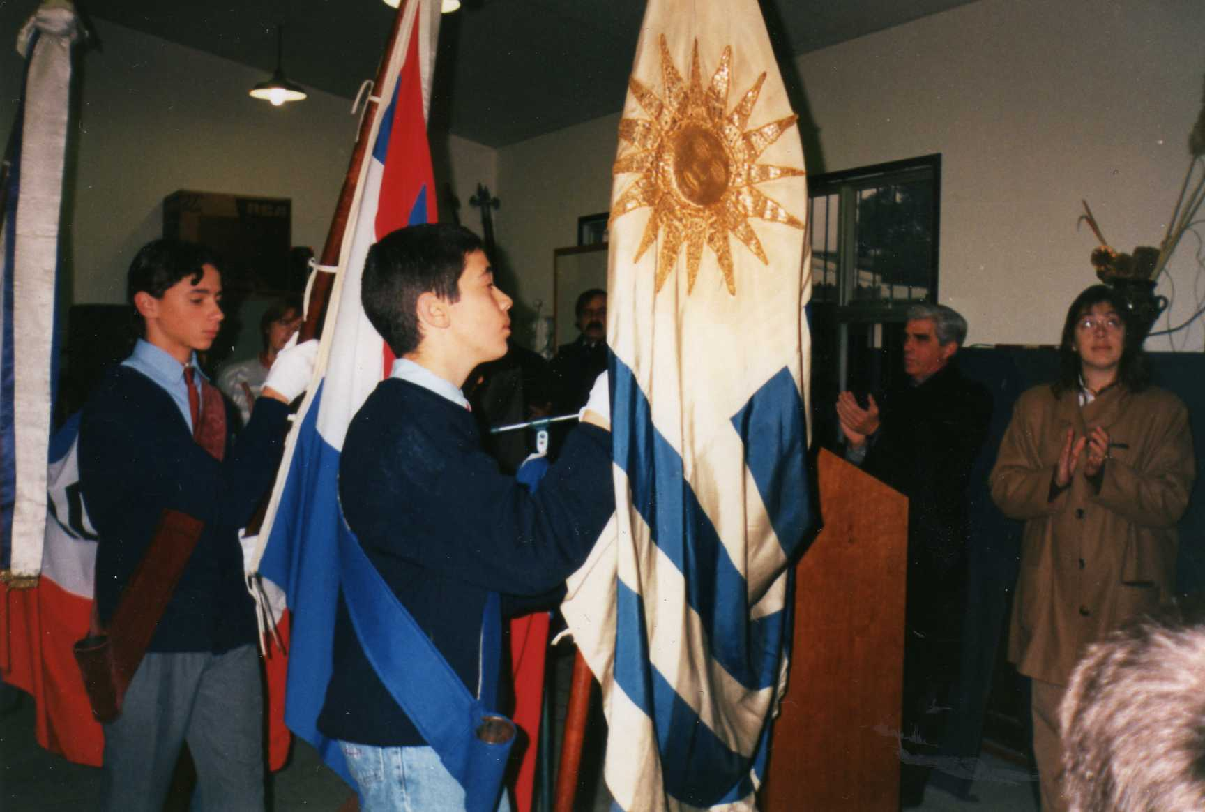 Uruguayans swearing allegiance to their national flag, an event taking place every June 19 as a commemoration of the birth of José Gervasio Artigas (1764-1850), the country's patriotic hero.